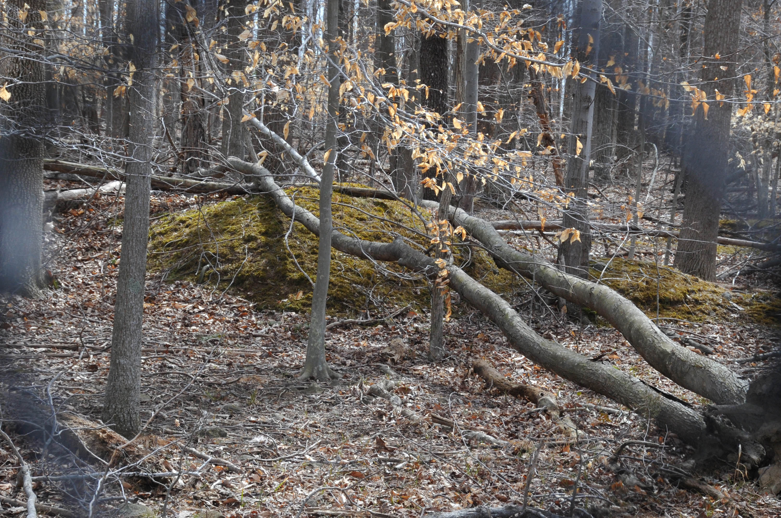 OUTLINES OF SOME OF THE REDOUBTS AND TRENCHES ARE STILL VISIBLE WITHIN THE WOODS AND WITH MANY FALLEN TREES OVERLYING THEM